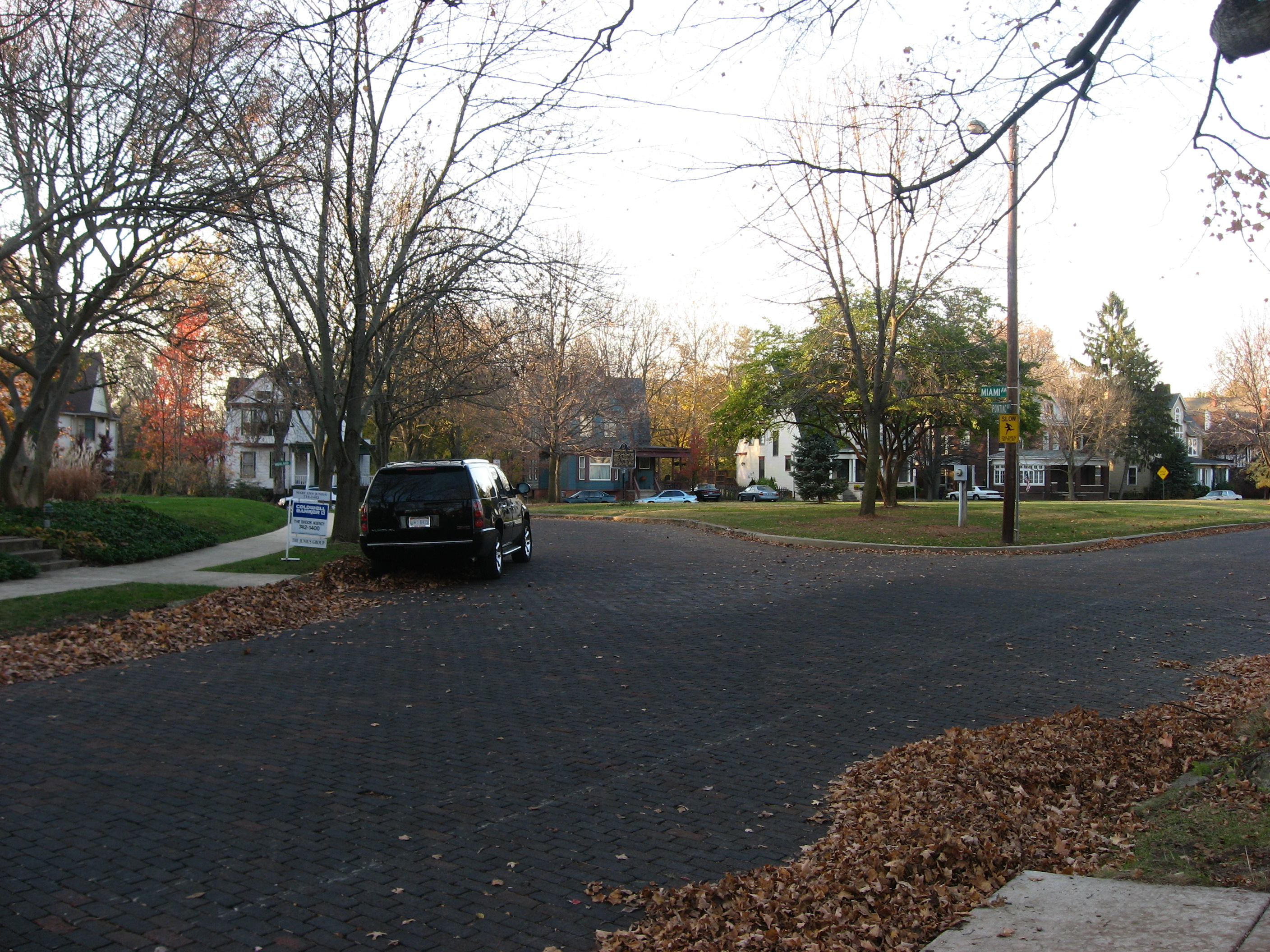 Intersection of Miami and Pontiac Avenues in the Highland Park neighborhood of Lafayette, Indiana, United States. This area is part of the Highland Park Neighborhood Historic District, a historic district that is listed on the National Register of Historic Places.